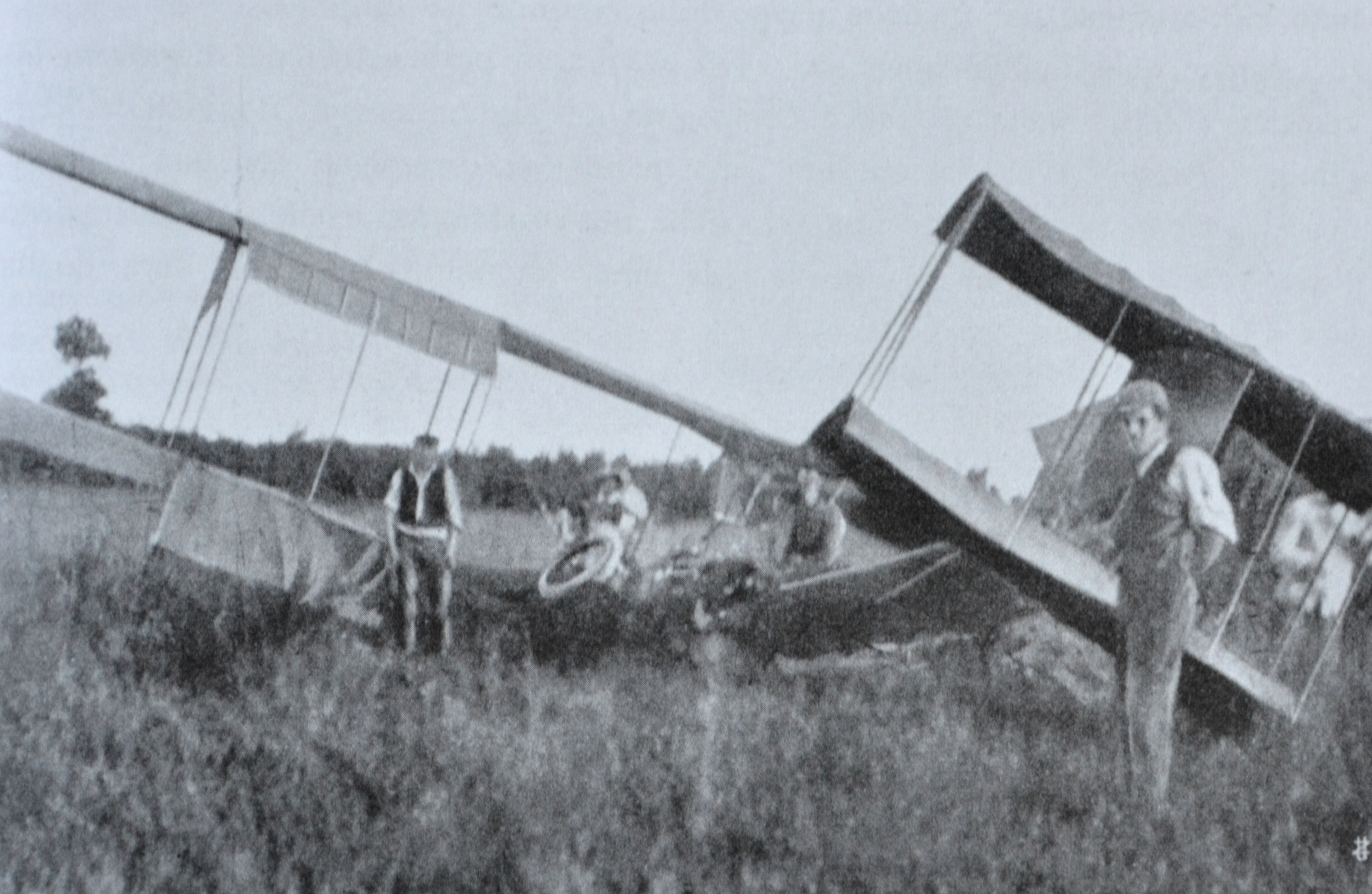 The crash of Gianni Caproni's Caproni Ca.2 experimental biplane at the end of the aircraft's fist flight. Malpensa, Varese, August 12, 1910.